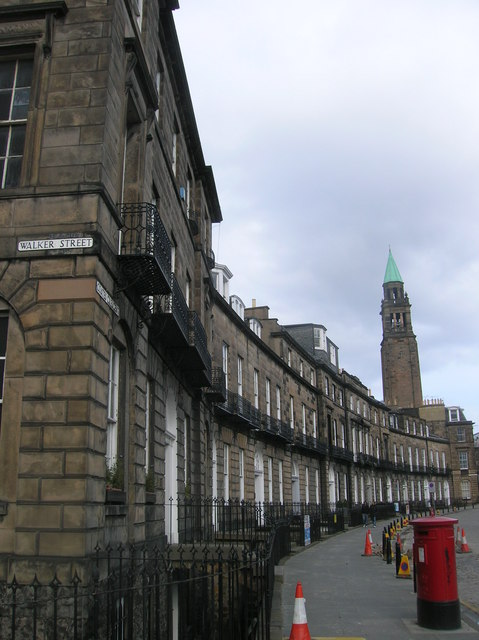 Coates Crescent at junction with Walker Street